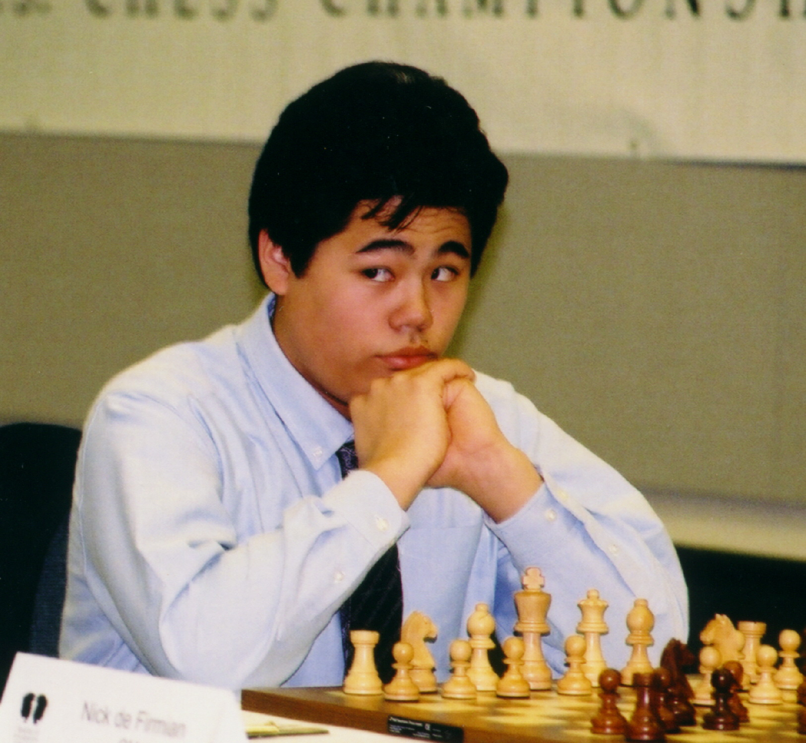 Hikaru Nakamura at the 2003 U.S. Chess Championships in Seattle, Washington.